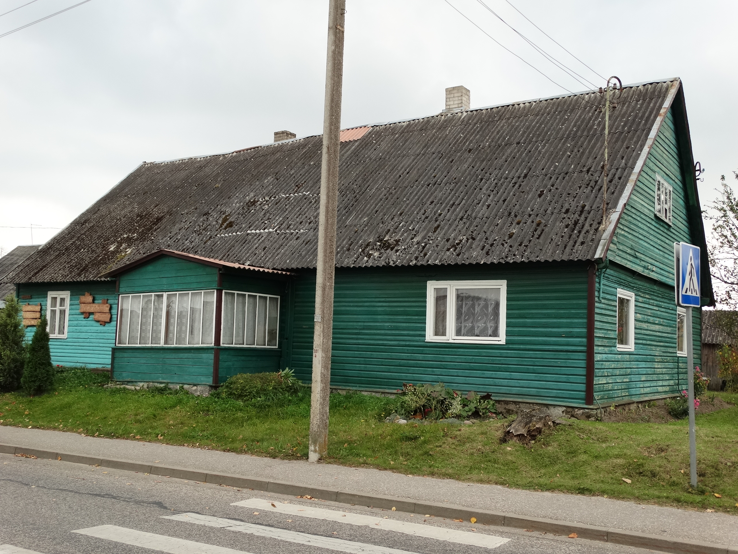 Museum, Rudamina, Lazdijai district, Lithuania